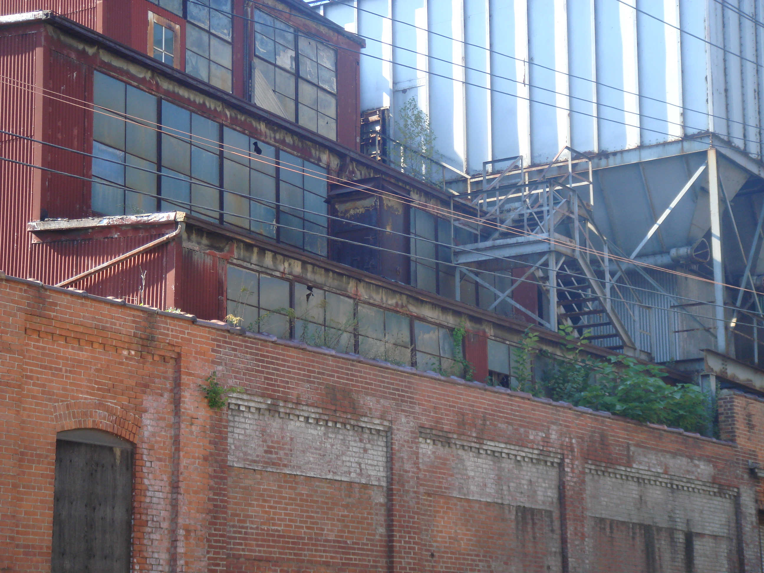 Factory building along North Main Street, Ansonia, CT